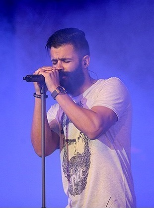 Sirvan Khosravi, Iranian singer during his concert in Milad Tower